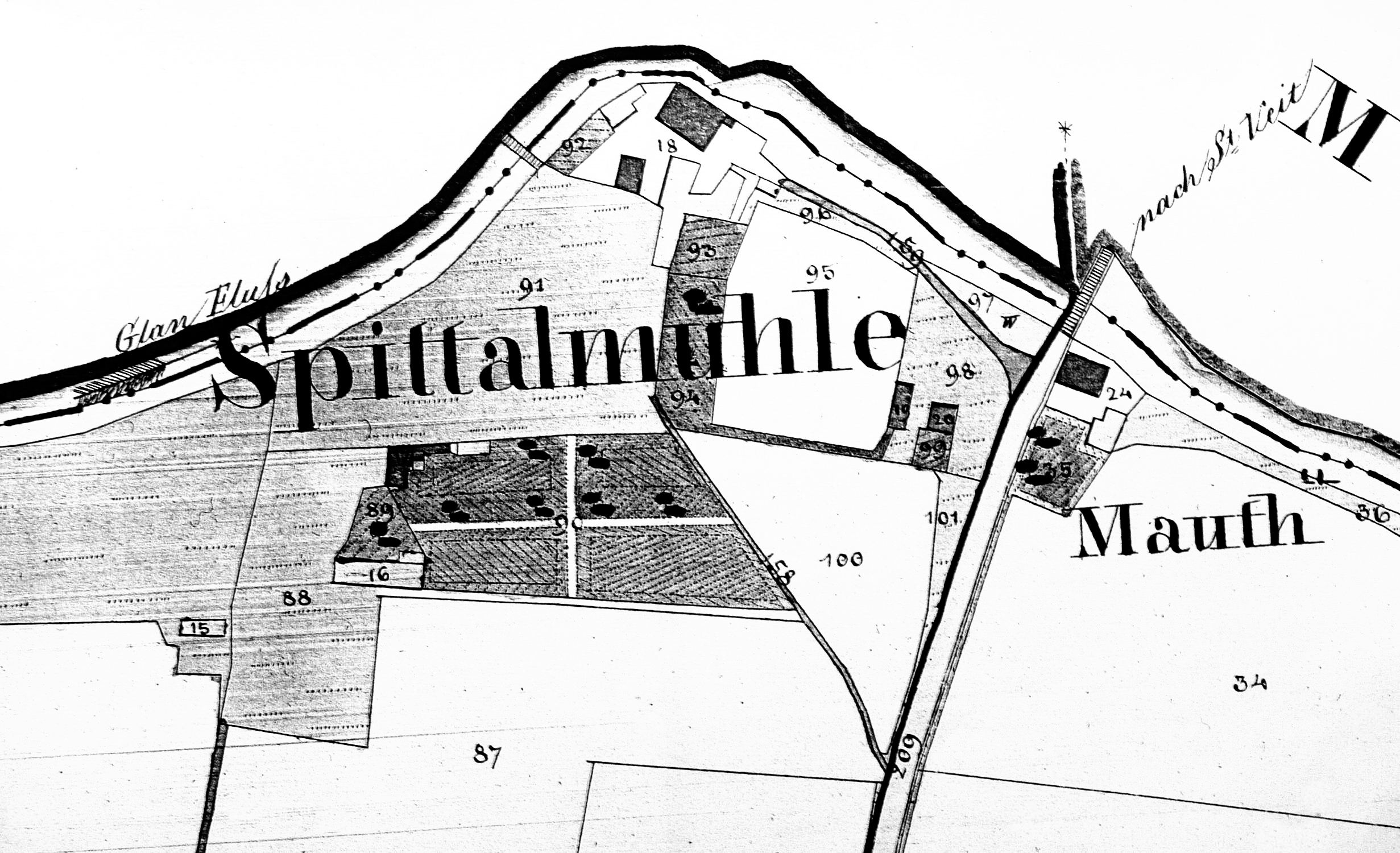 Cutout of an old cadastre map (19th century) of the “Spittalmuehle” on the Glan river in the 5th district “Sankt Veiter Vorstadt” of the Carinthian capital Klagenfurt on the Lake Woerth, Carinthia, Austria